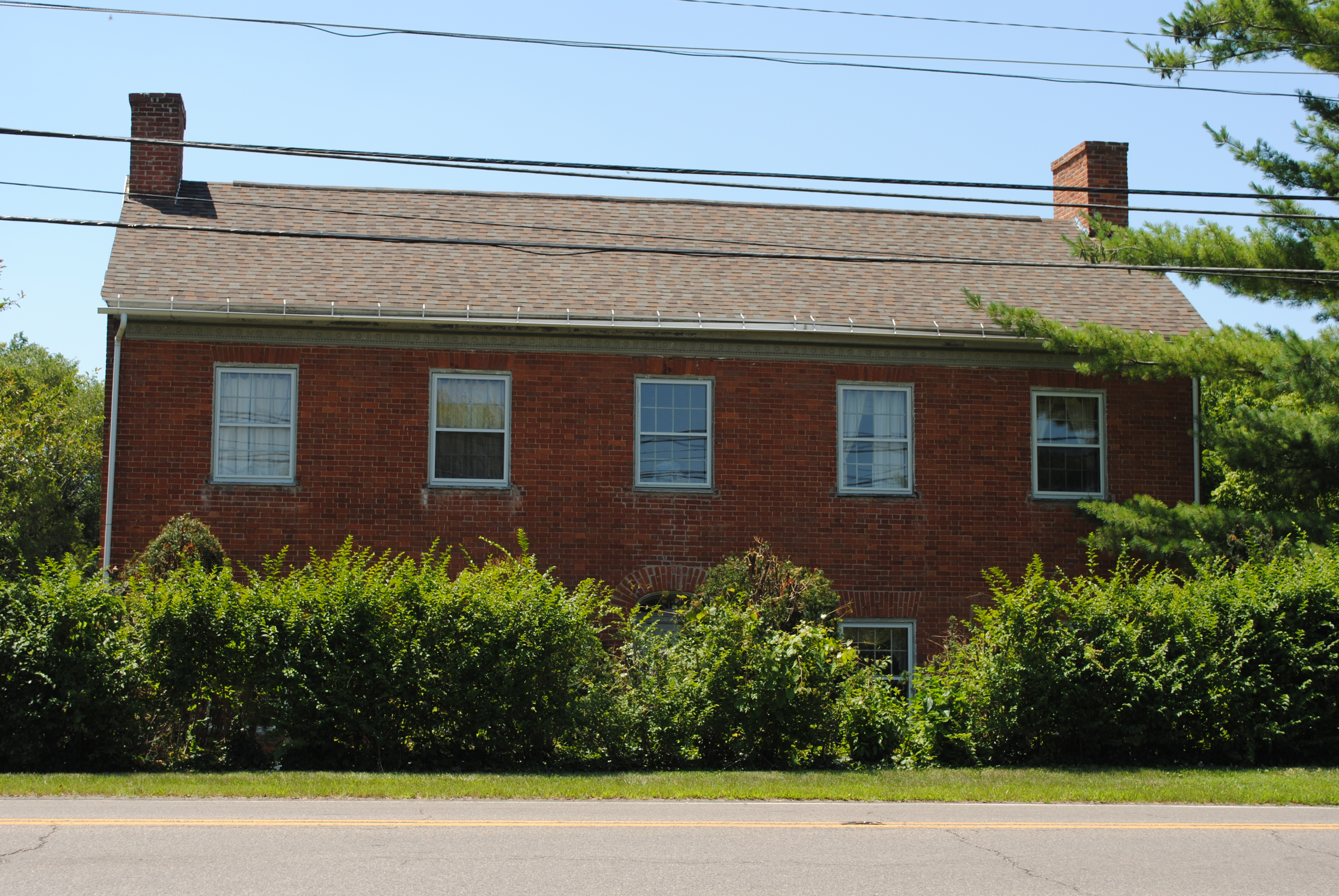 The Agler-La Follette House in Mifflin Township. It is listed on the National Register of Historic Places